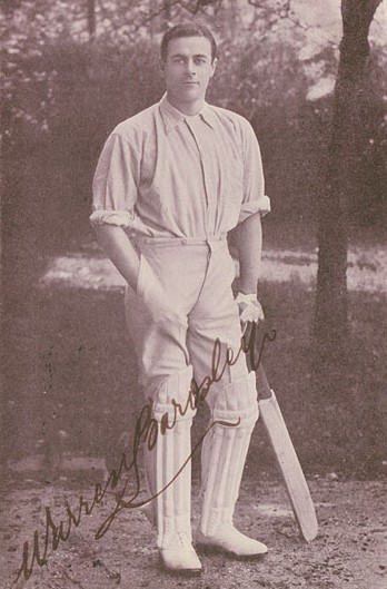 Image of Warren Bardsley from the State Library of NSW, accessed at: Public Domain. This image is of Australian origin and is now in the public domain because its term of copyright has expired. According to the Australian Copyright Council (ACC), ACC Information Sheet G023v17 (Duration of copyright) (August 2014).3 Type of materialCopyright has expired if … A Photographs or other works published anonymously, under a pseudonym or the creator is unknown:taken or published prior to 1 January 1955BPhotographs (except A):taken prior to 1 January 1955CArtistic works (except A & B):the creator died before 1 January 1955DPublished editions1 (except A & B):first published more than 25 years agoECommonwealth, State or Territory owned2 photographs and engravings:taken or published more than 50 years ago 1 means the typographical arrangement and layout of a published work. eg. newsprint. 2 owned means where a government is the copyright owner as well as would have owned copyright but reached some other agreement with the creator. 3 Copyright Amendment (Disability Access and Other Measures) Bill 2017 (Australien Government) When using this template, please provide information of where the image was first published and who created it.